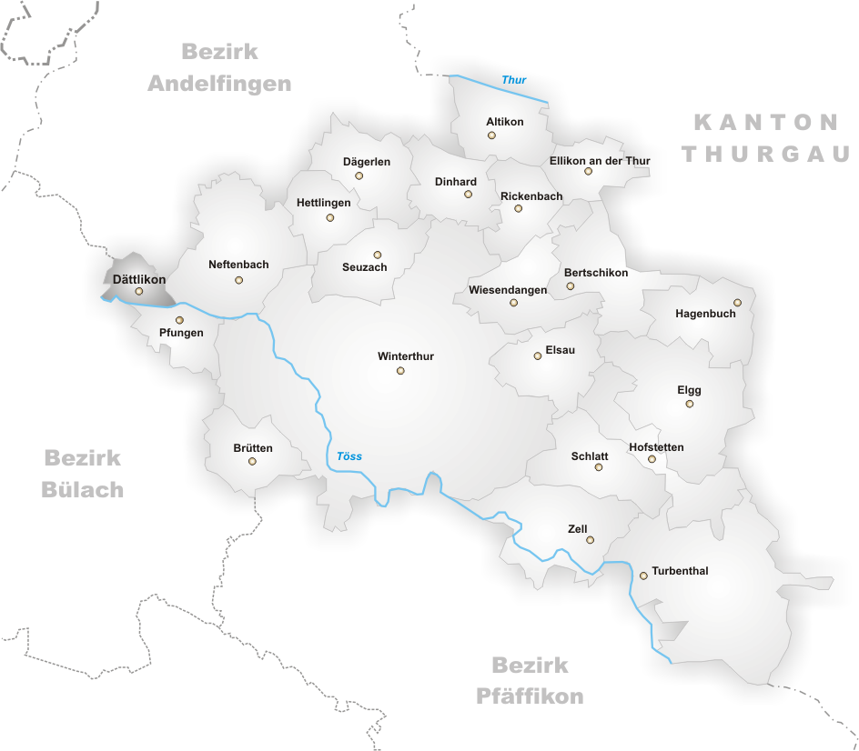 Municipality Dättlikon